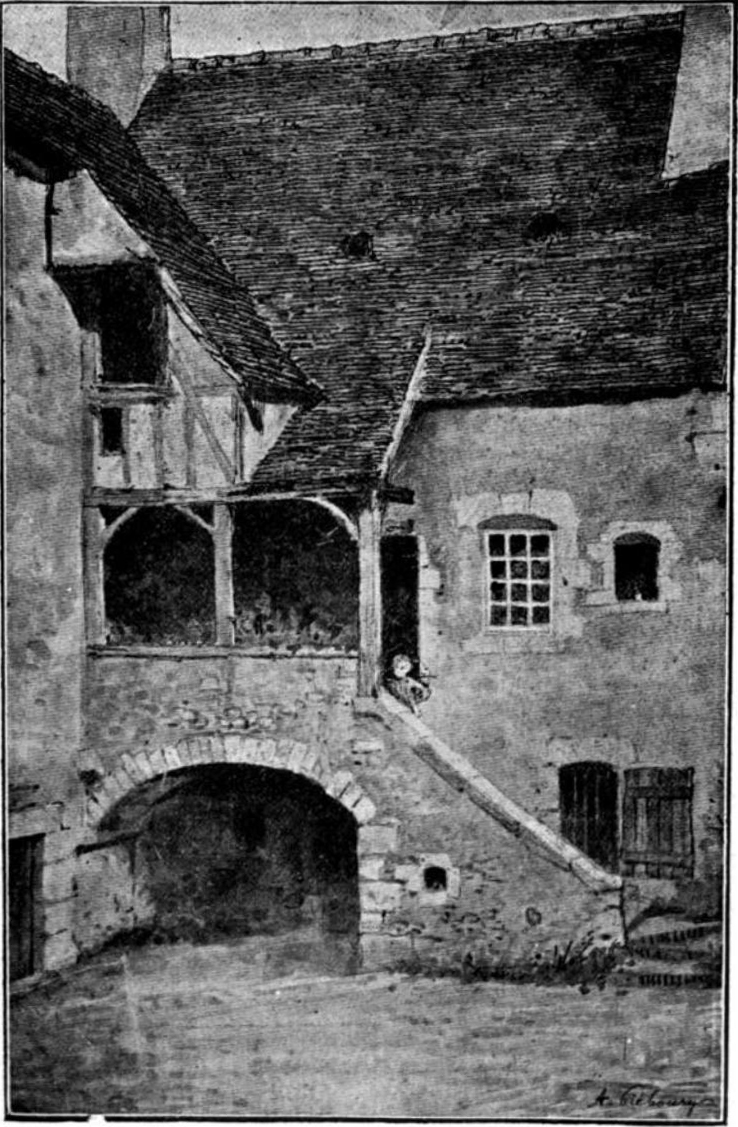 The house of Rémy Belleau (1528-), French poet.